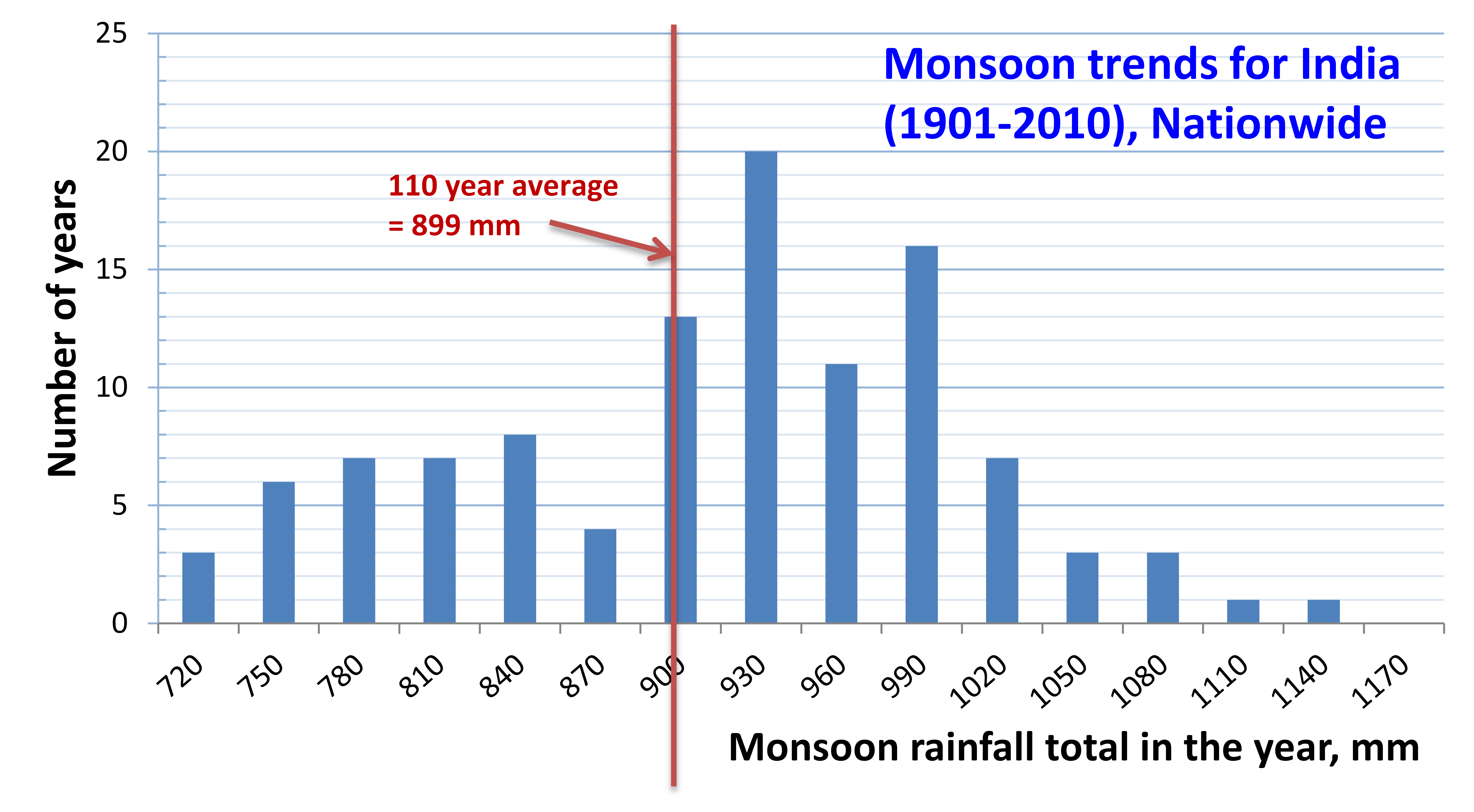 Number of years over 110 years (1901 to 2010) when the total average monsoon precipitation for India was equal to or less than a given amount, but greater than previous. 720mm bar is the number of years in 110 years when monsoon preciptation was equal to or less than 720 mm. 750mm bar is the number of years in 110 years when monsoon preciptation was equal to or less than 750 mm, but greater than 720 mm. 780mm bar is the number of years in 110 years when monsoon preciptation was equal to or less than 780 mm, but greater than 750 mm. (...) 1140mm bar is the number of years in 110 years when monsoon preciptation was equal to or less than 1140 mm, but greater than 1110 mm. Data Source: India Meteorological Department, Ministry of Earth Sciences, Government of India